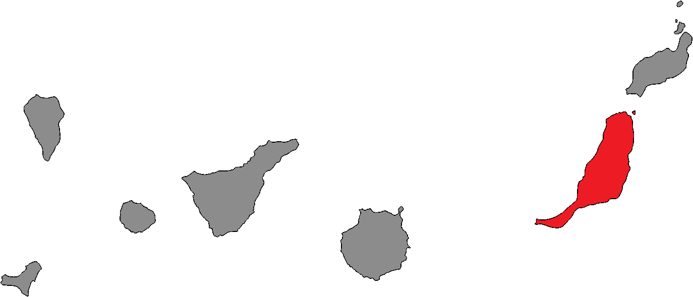 Canarian Parliament district of Fuerteventura.